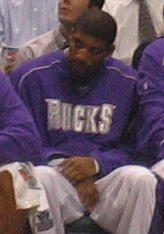 Reece Gaines on the bench during the Milwaukee Bucks at Miami Heat game, 12/14/2005.